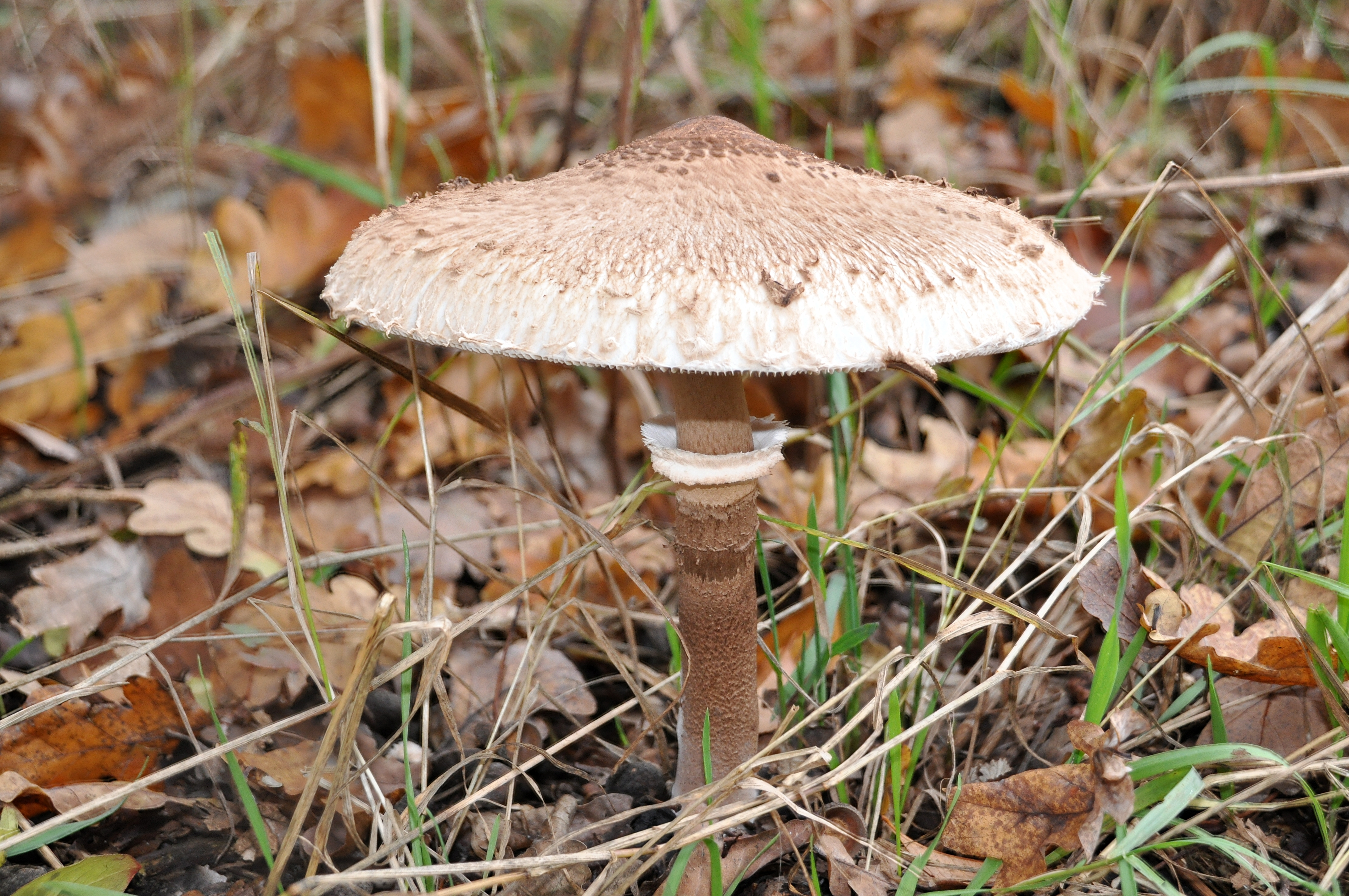 Parasol (Macrolepiota procera) near Hamburg, Germany.